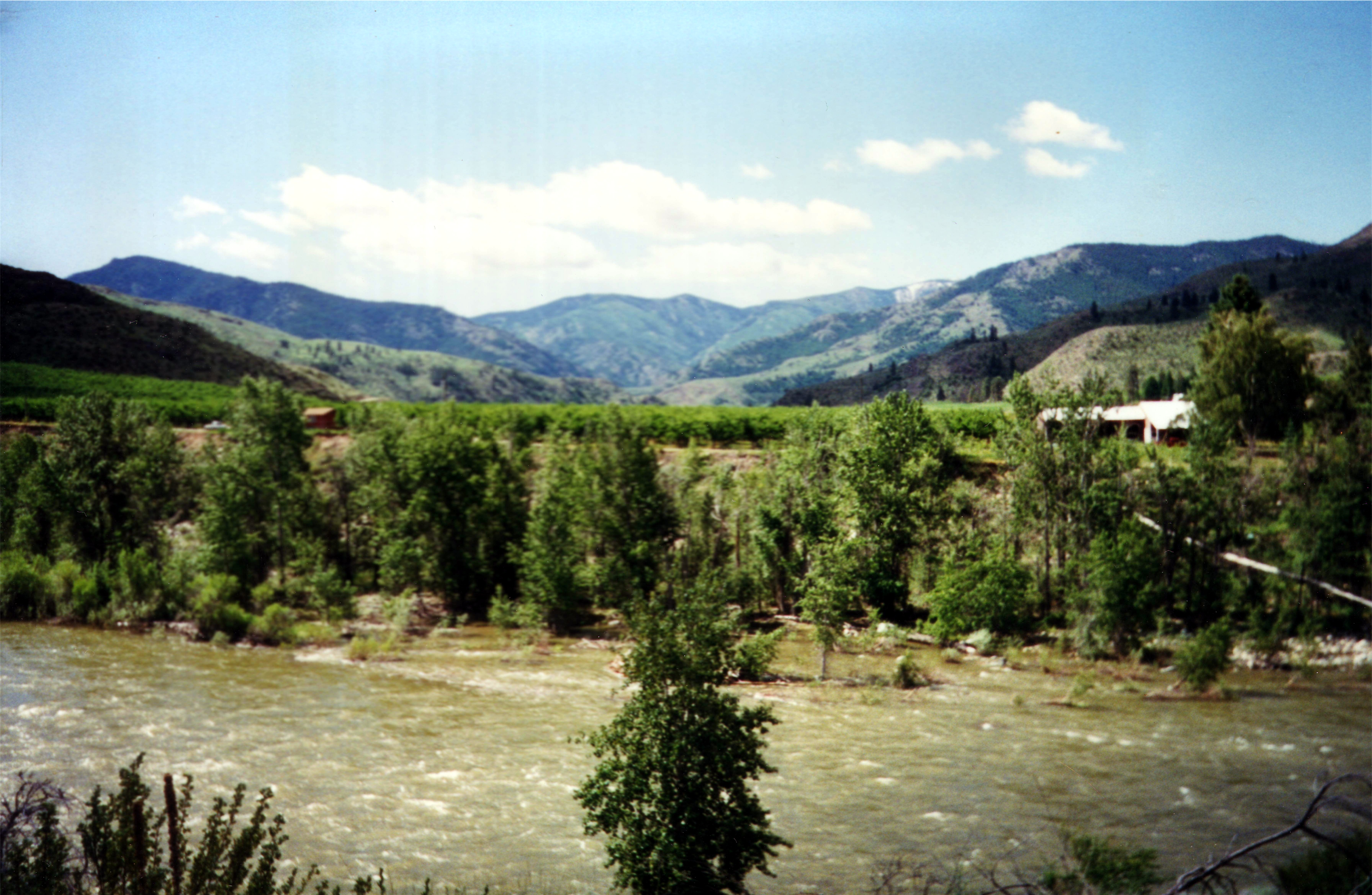 Looking south from the town of Methow